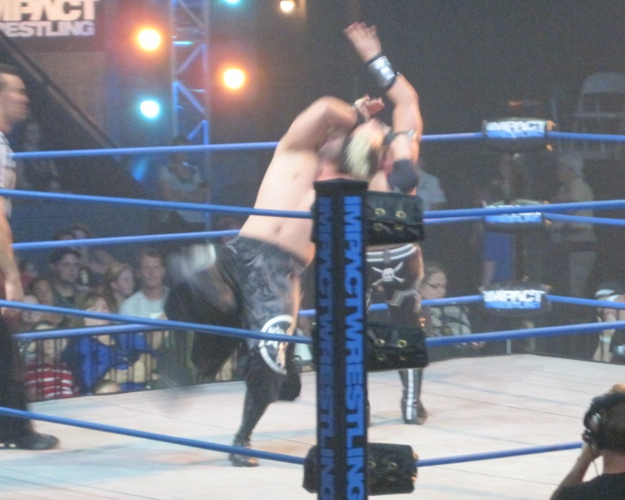 Professional wrestler Kazuchika Okada performing a neckbreaker on Alex Shelley at the tapings of TNA Xplosion.